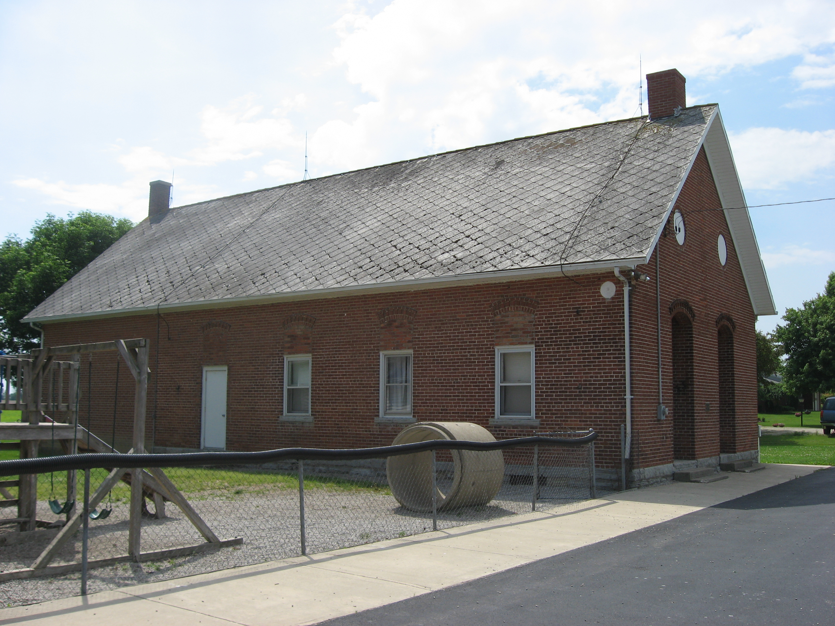 Northern side and front of the former Nativity of the Blessed Virgin Mary Catholic School, located immediately south of State Route 119 in Cassella, an unincorporated community in Marion Township, Mercer County, Ohio, United States.